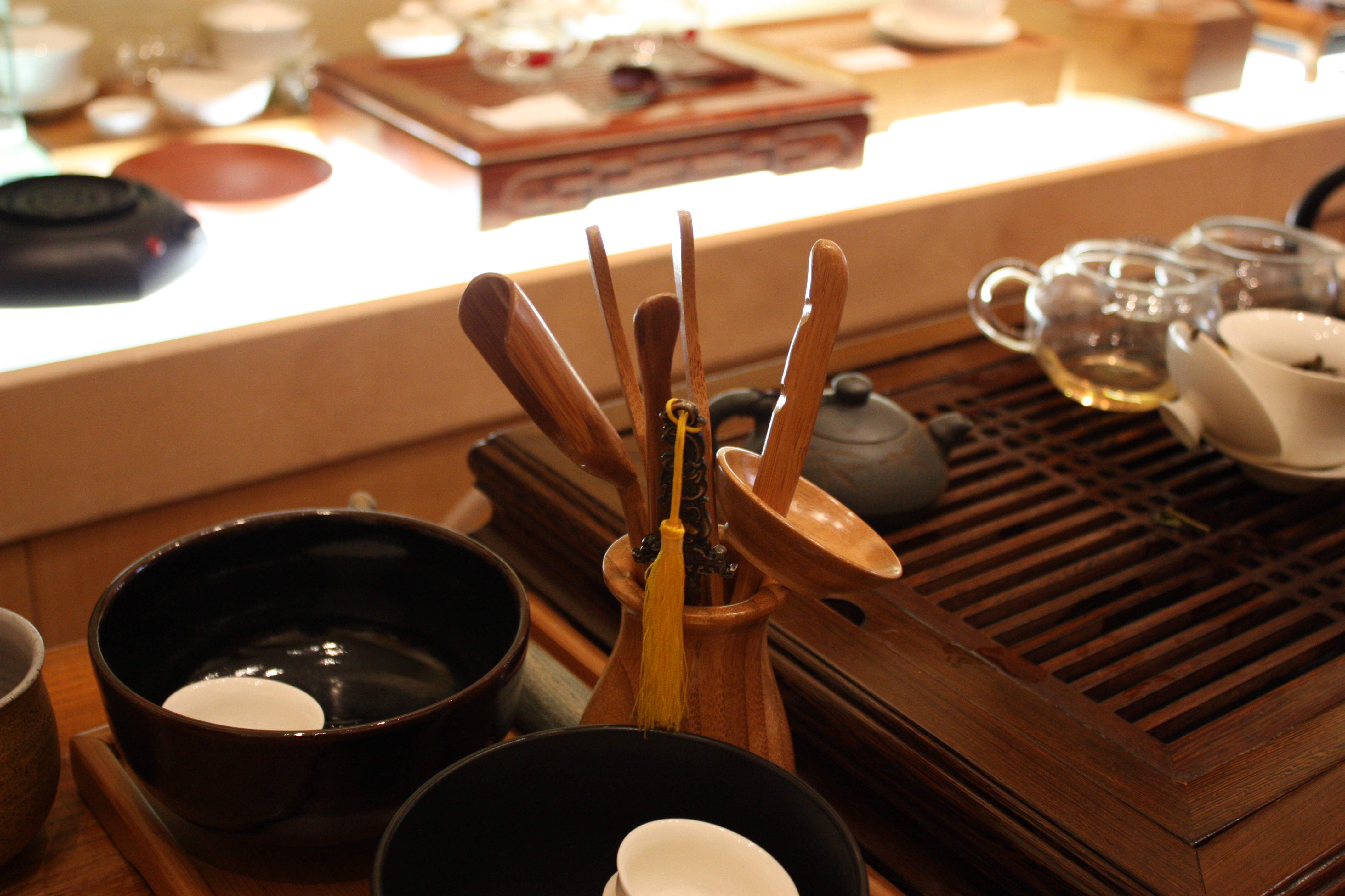 Chinese tea utensils for the tea ceremony.